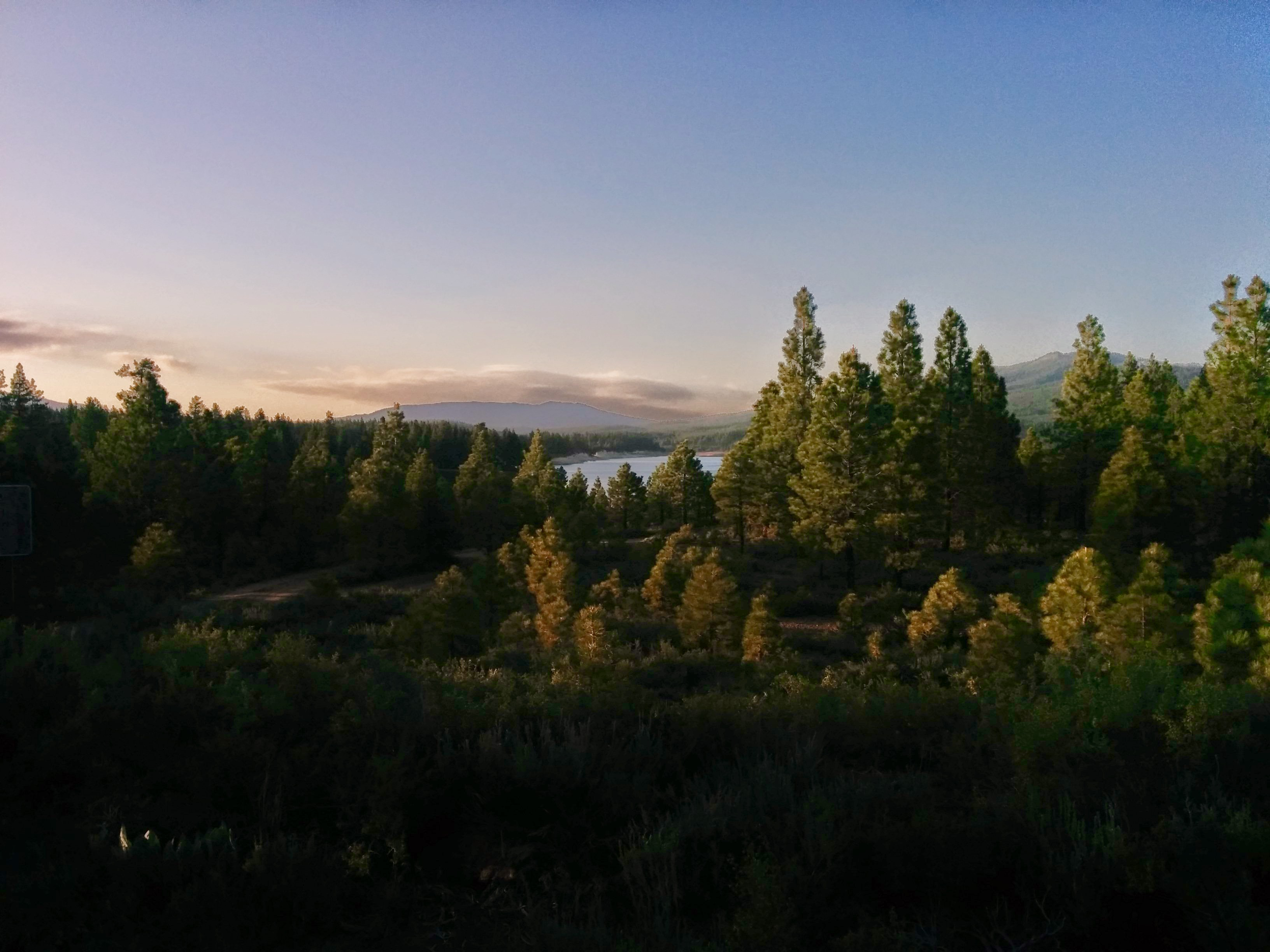 Boca Reservoir from the Southwest on a Spring evening, taken during the 2014 Reno-Tahoe Odyssey relay race